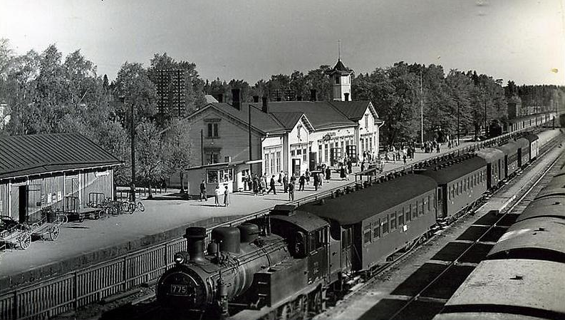 Kerava railway station in Kerava, Finland. VR Class Pr1 steam locomotive no. 775 in the foreground. Photograph taken in the 1950s.